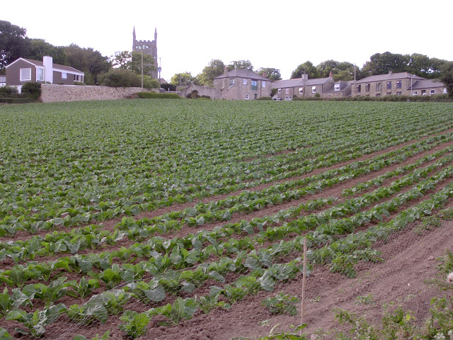 Vegetables in a field at Ludgvan, Cornwall. In the foreground is a chicken-wire fence to exclude rabbits. In the background is the tower of St Paul's parish church.